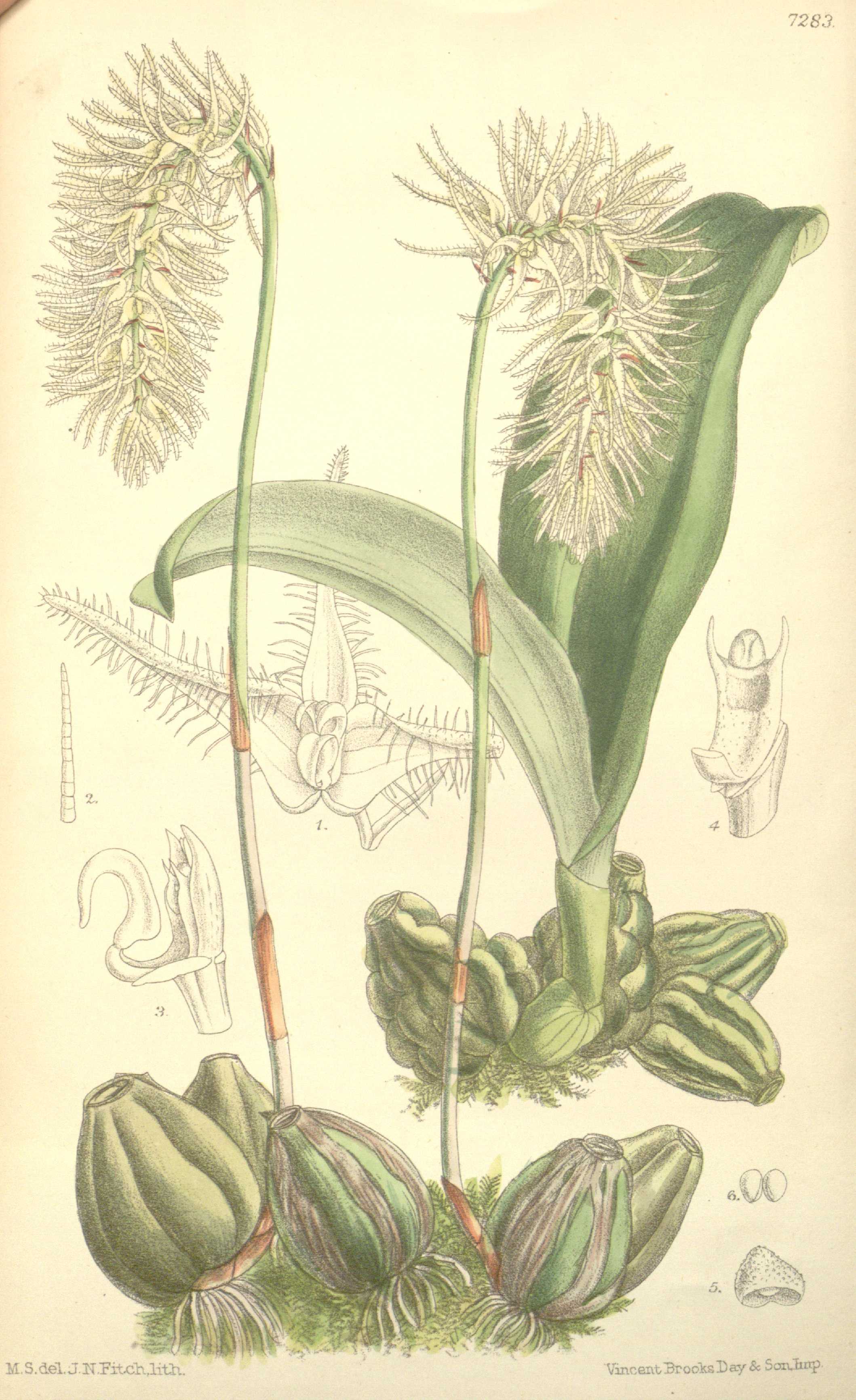 Illustration of Bulbophyllum comosum